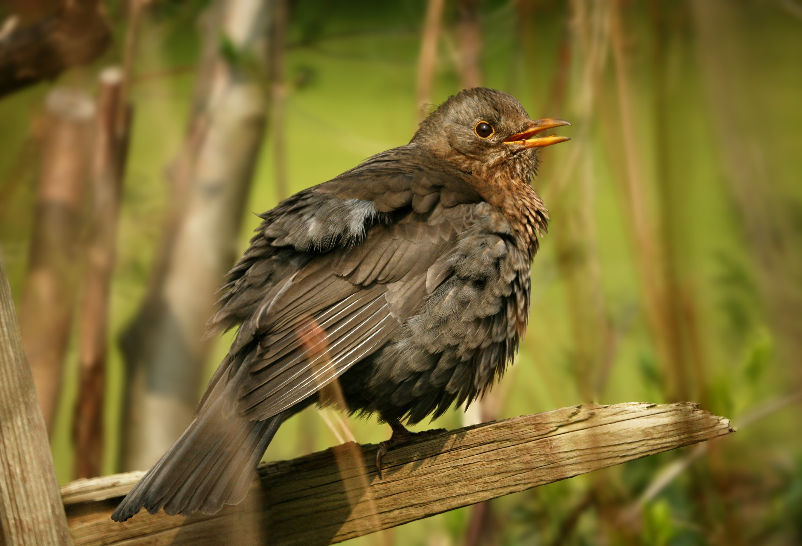 Blackbird female